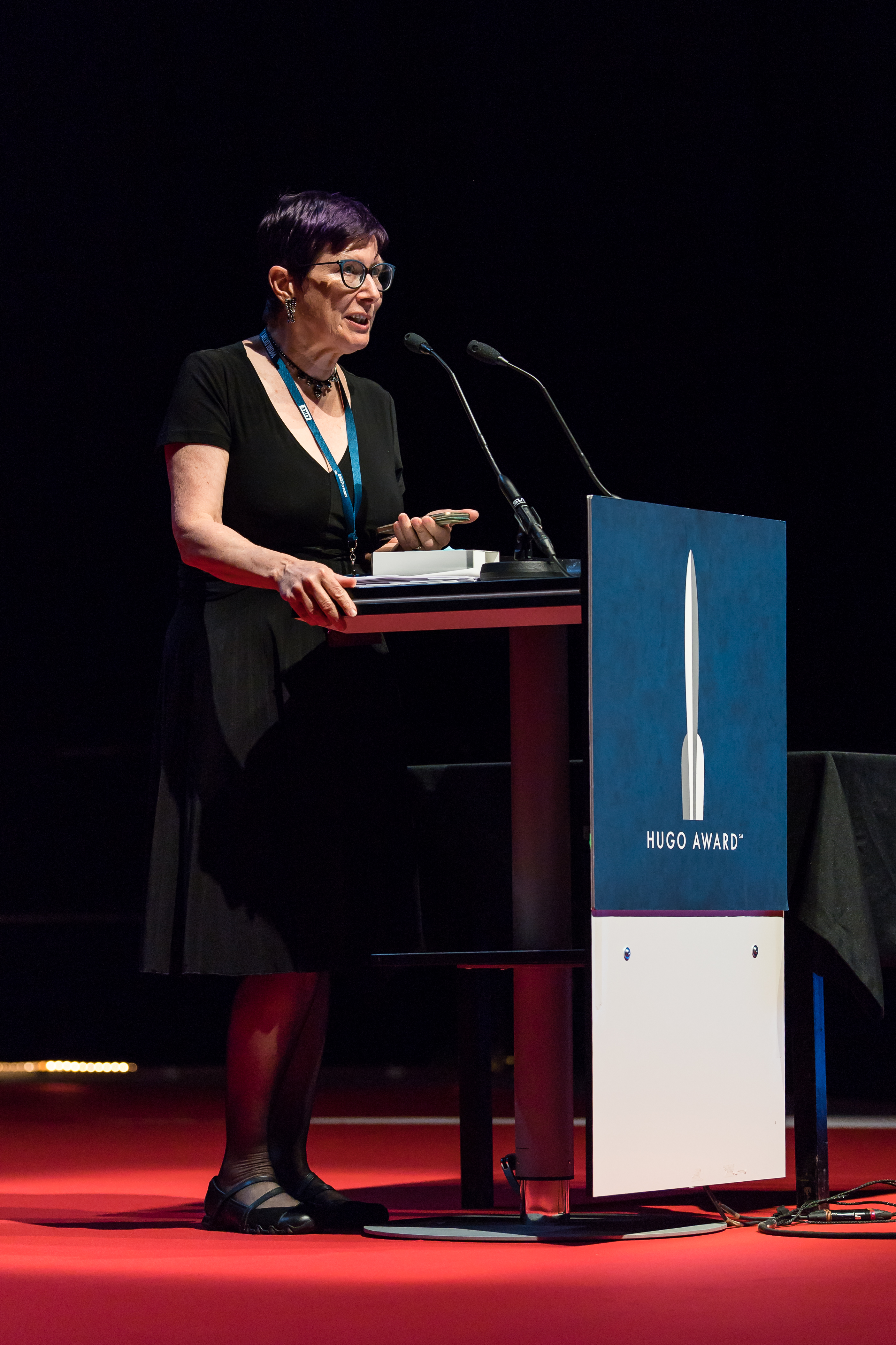 Pat Murphy at the Hugo Awards Ceremony 2017 at Worldcon in Helsinki.jpg